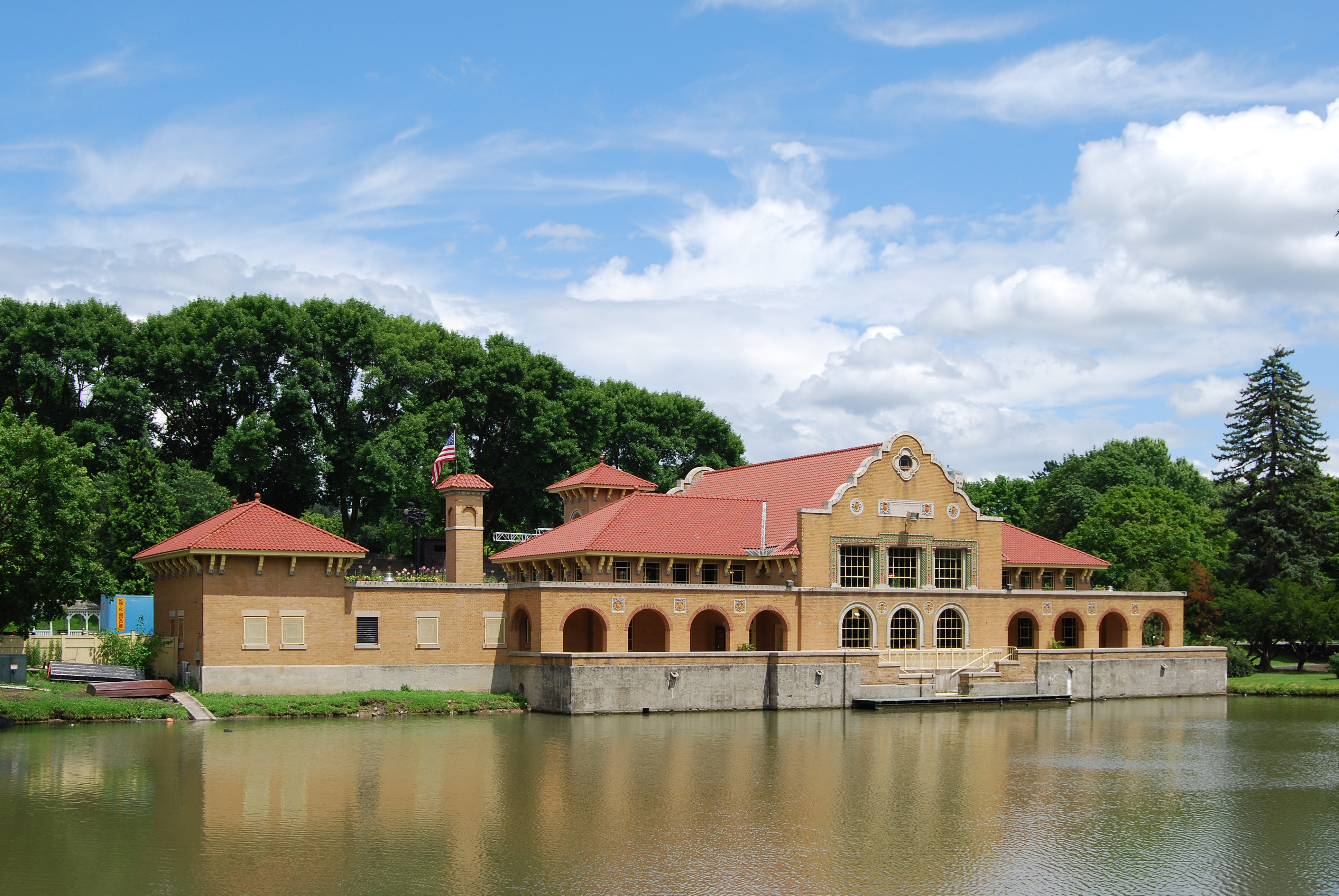 The boathouse at Washington Park in Albany, New York, United States